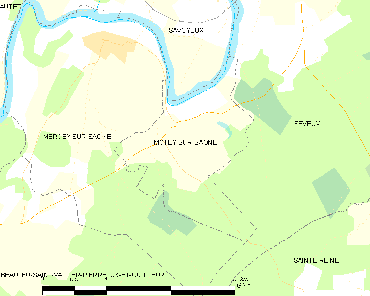 Map of French municipality